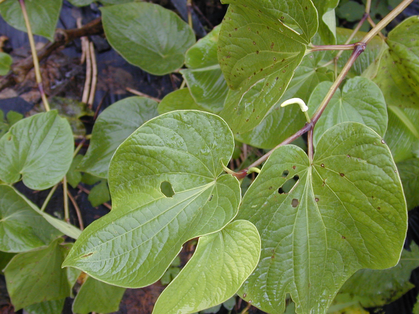 Piper methysticum (leaves and inflorescence). Location: Maui, Nahiku